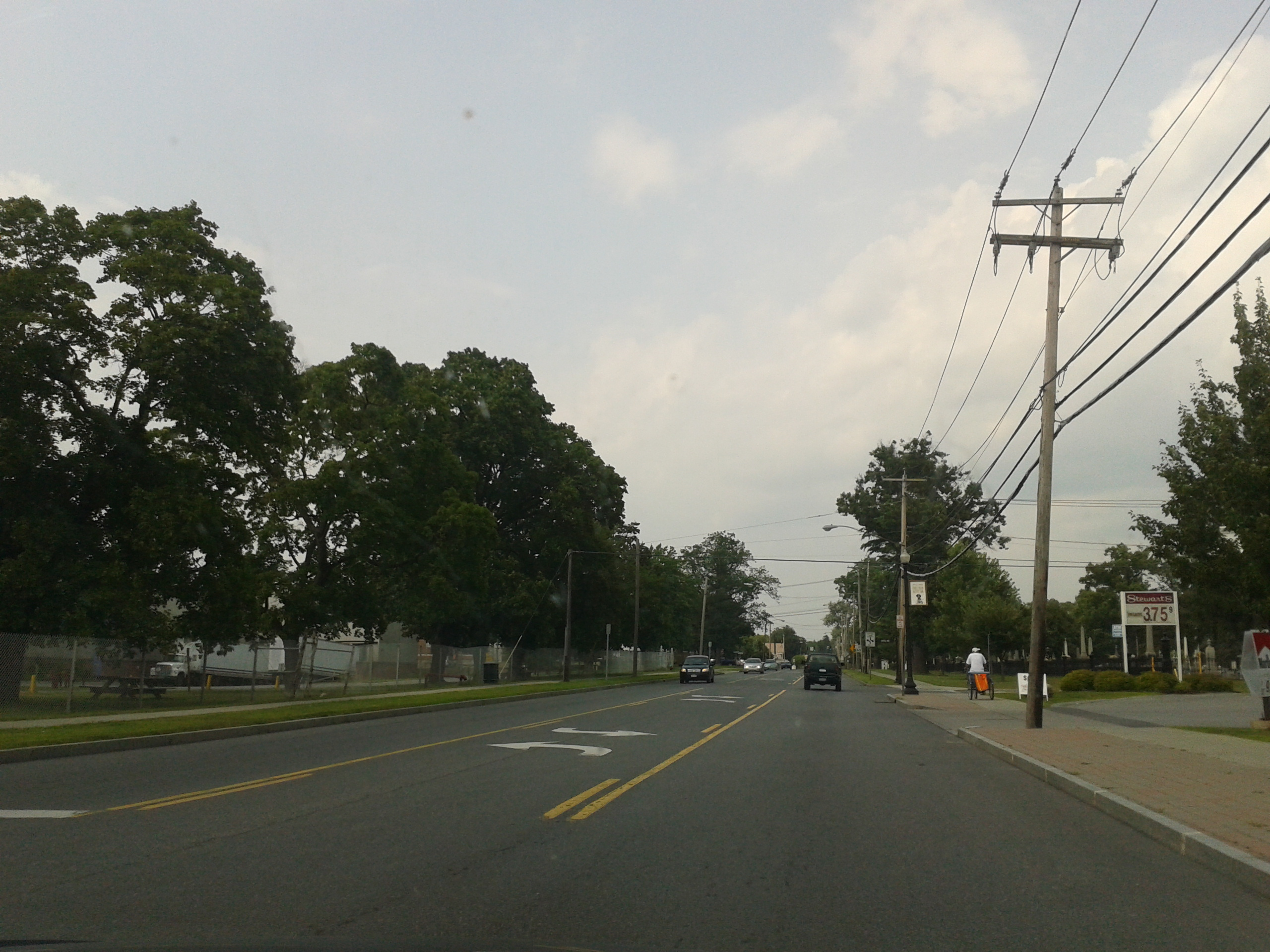 View of Fort Edward